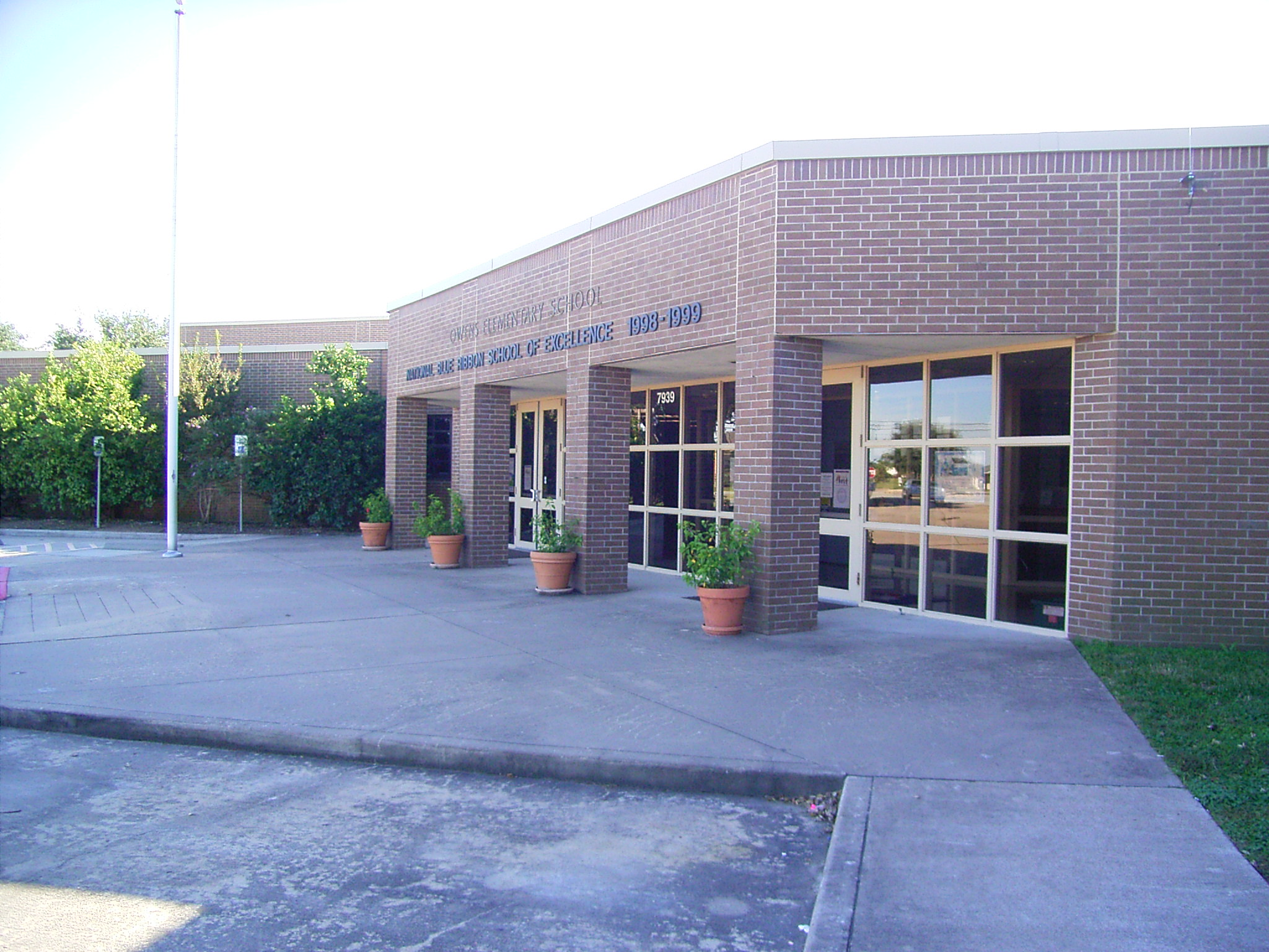 Owens Elementary School